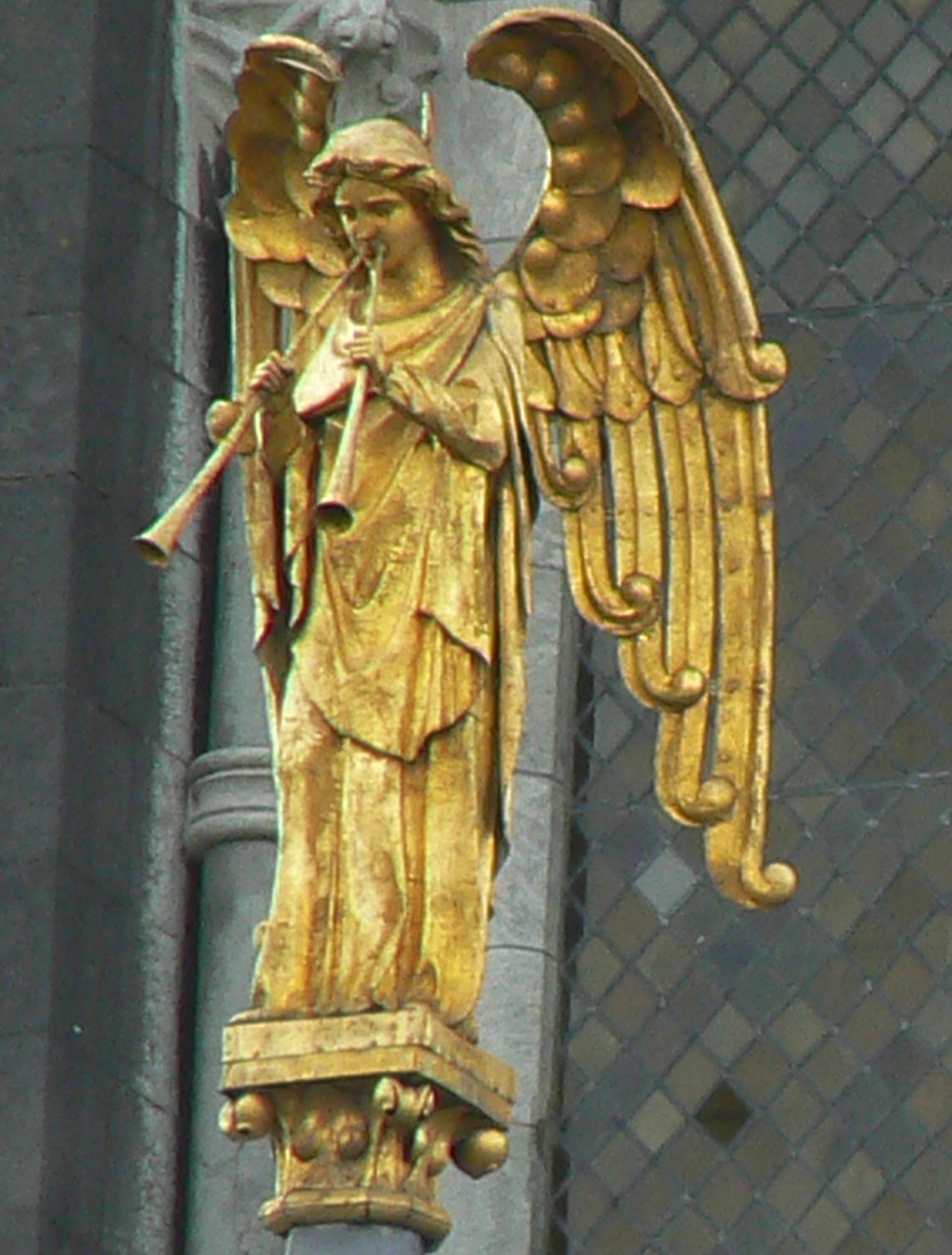 The "Ressurection Angel" on the pinnalce of the sanctuary roof, St Fin Barre's Cathedral, Cork City, Ireland.